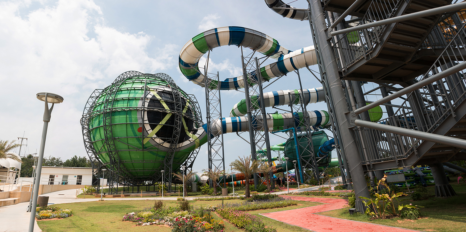 The Omnitrix from Cartoon Network Amazone Waterpark Pattaya